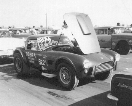 This is Cobra chassis CSX 2093, then owned by Jim Costilow and driven by Bruce Larson (who later became the 1989 NHRA Funny Car World Champion). The car was later sold to Ed Hedrick who used it to win the 1966 World Championship. It is currently owned by former driver Bruce Larson.